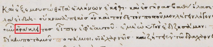 οὔκουν ἀπεικὸς ἦν καὶ τόνδε τὸν Ποστοῦμον λέγειν λόγον ἐκεῖνον, ὅνπερ οὖν Ἡράκλειτος εἶπεν ἐφ' ἑαυτοῦ: ἐμεωϋτὸν ἐδιζησάμην. 'So it was not unreasonable to say, of this Postumus, that saying which once Heraclitus applied to himself: "I went in search of myself".'